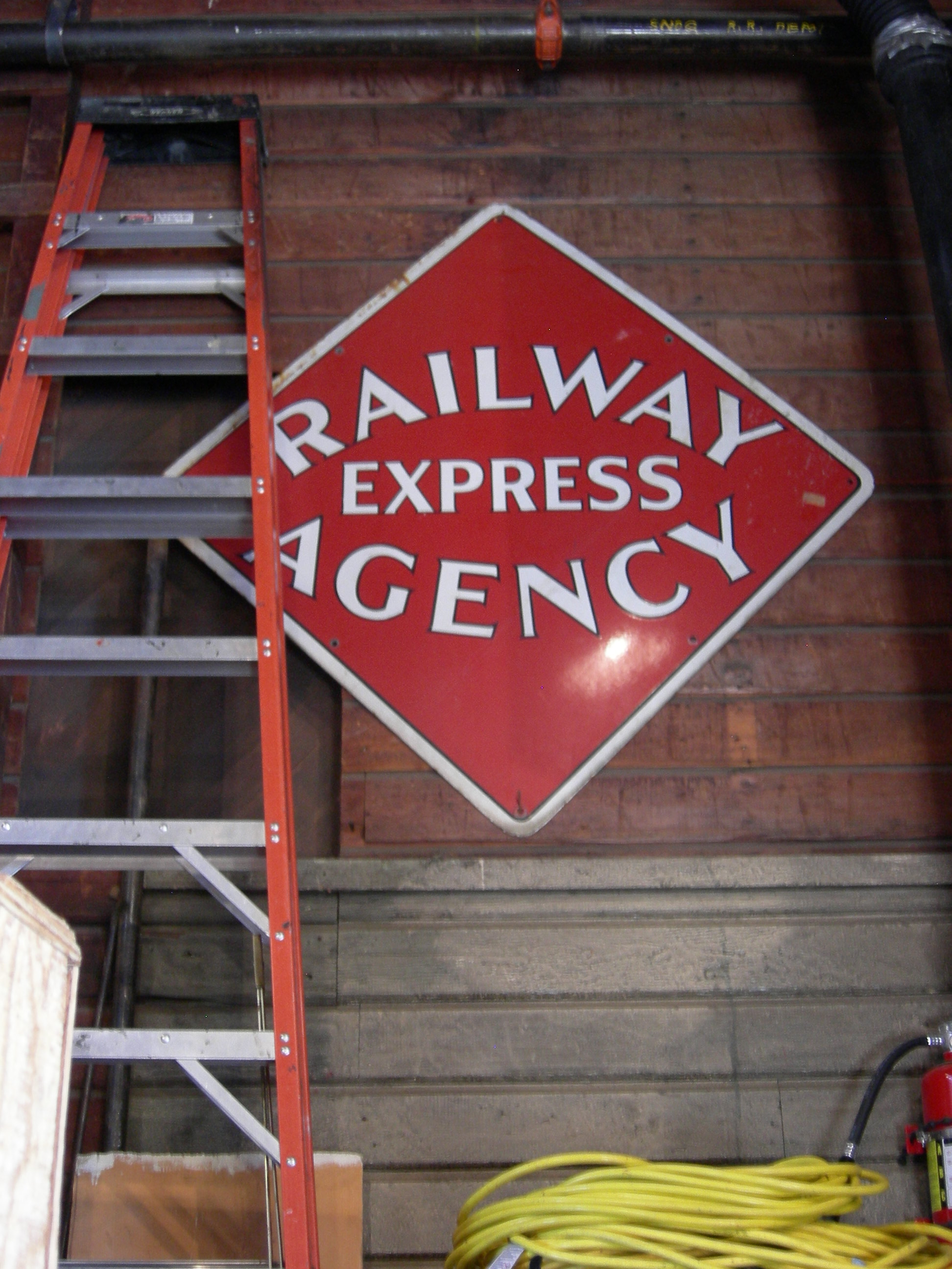 Railway Express sign, on display in Snoqualmie Depot, Snoqualmie, Washington, USA.